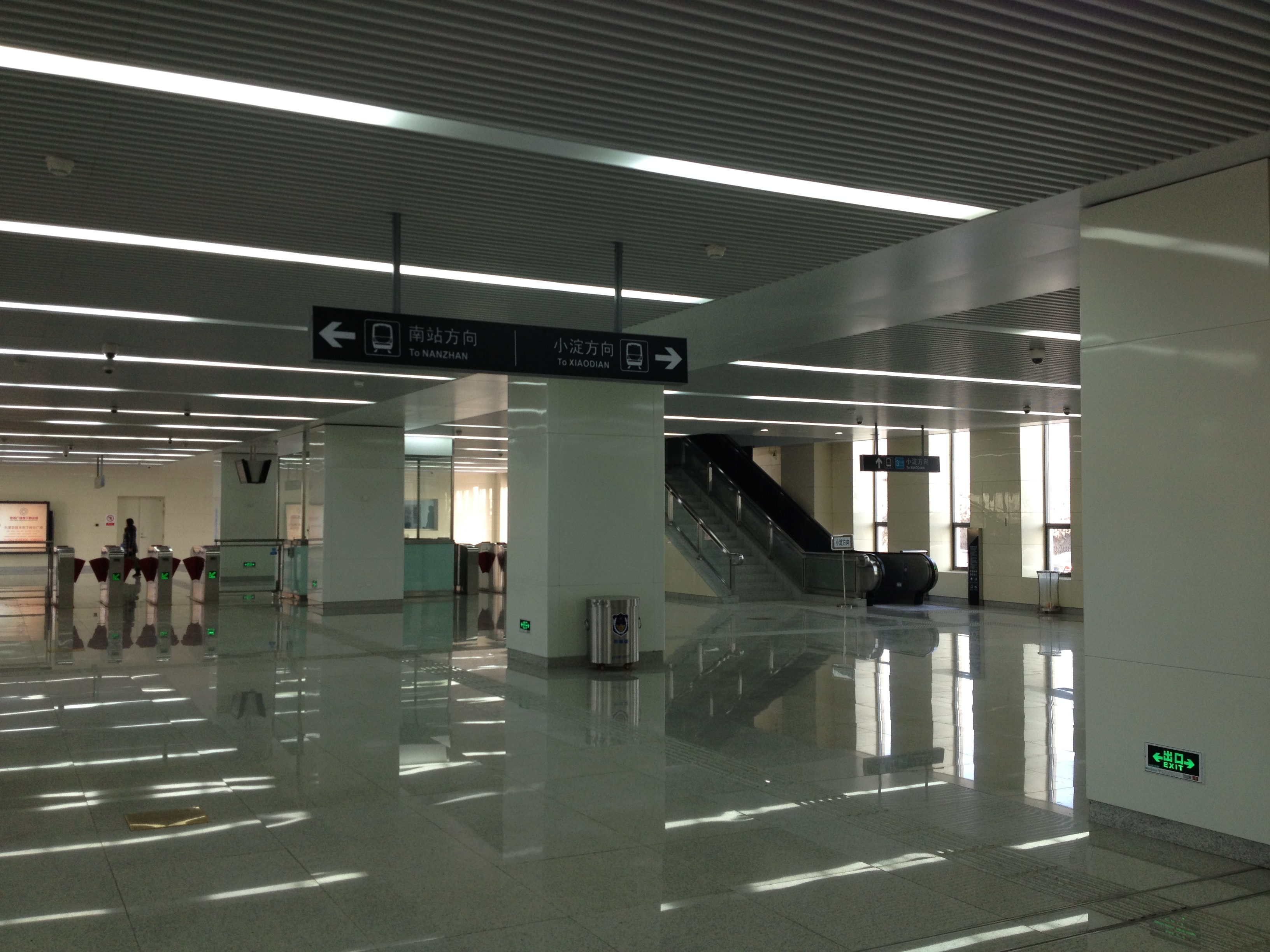 Station hall of Tianjin Metro YANGWUZHUANG Station